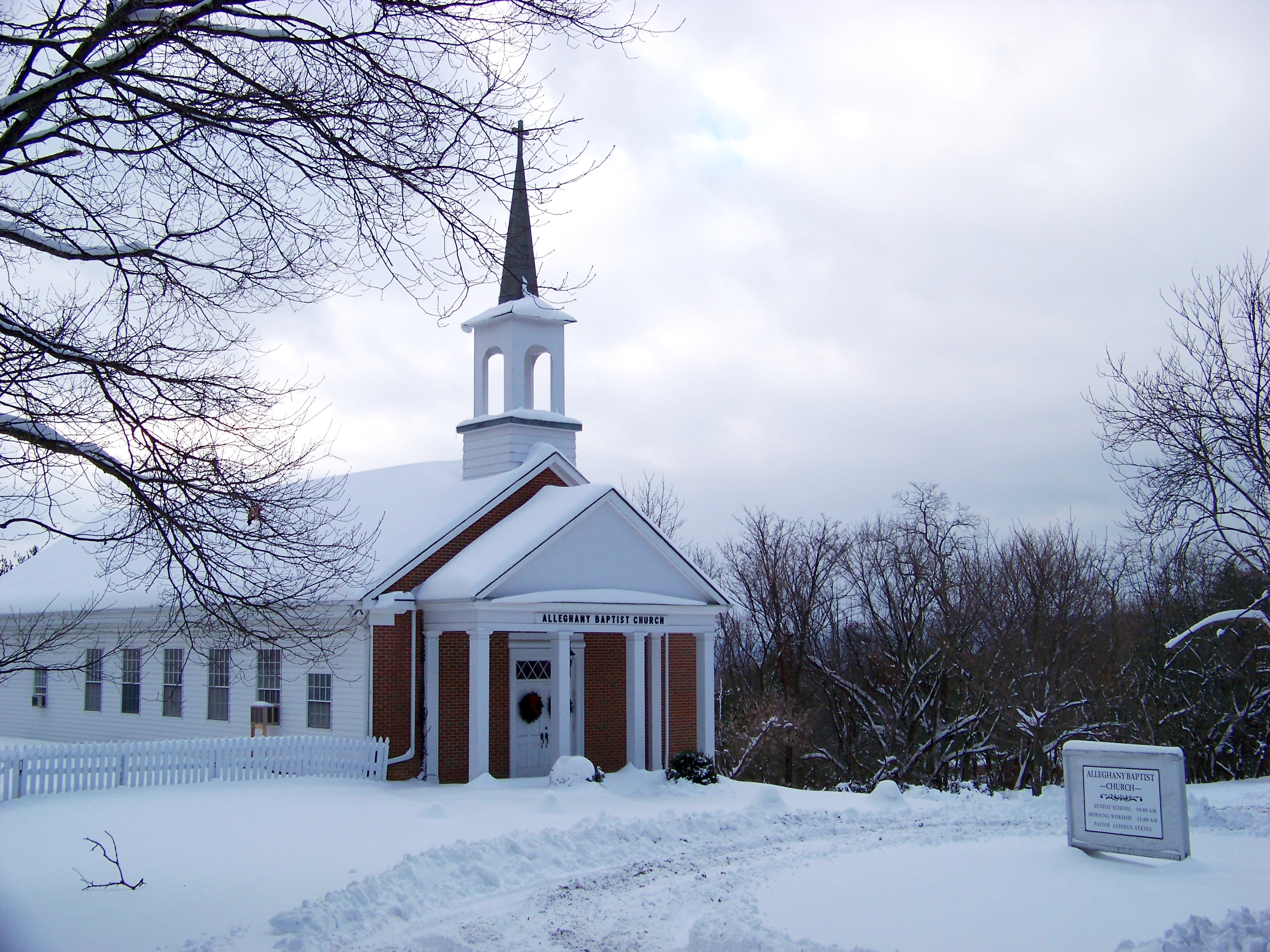 Alleghany Baptist Church